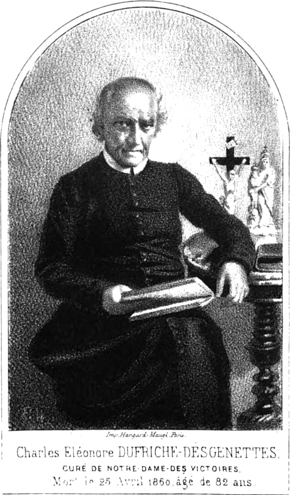 Charles Éléonore Dufriche-Desgenettes (1778 – 1860) founder of the Archiconfrérie du Très-Saint et Immaculé Cœur de Marie.